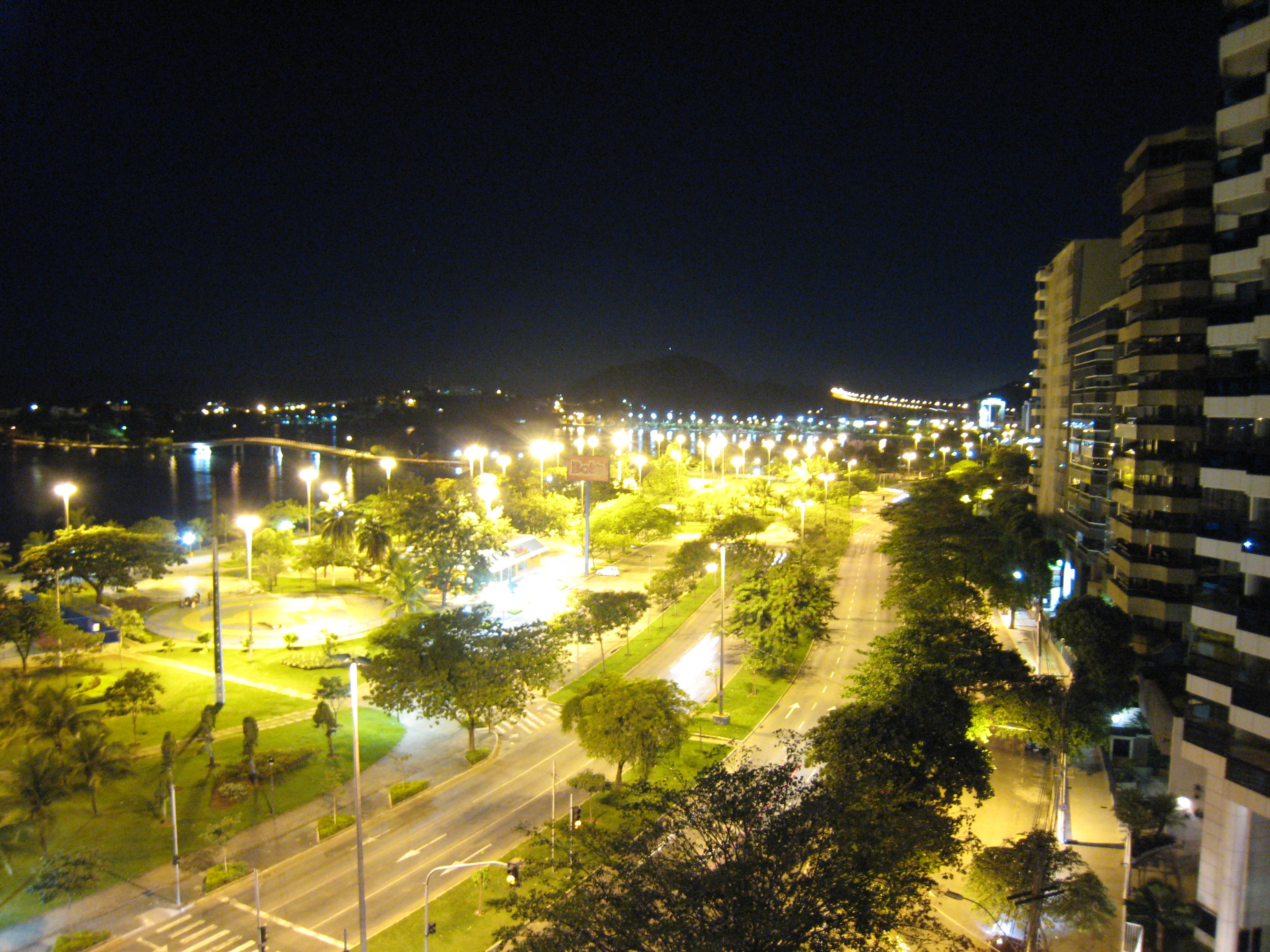 Vitoria, ES, Brazil at night